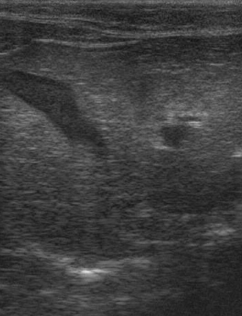 Sonographic image of a severe hepatic lipidosis in a perser cat. Note the increased echogenity (?) of des liver parenchyma, similar to the fatty tissue surrounding the liver.